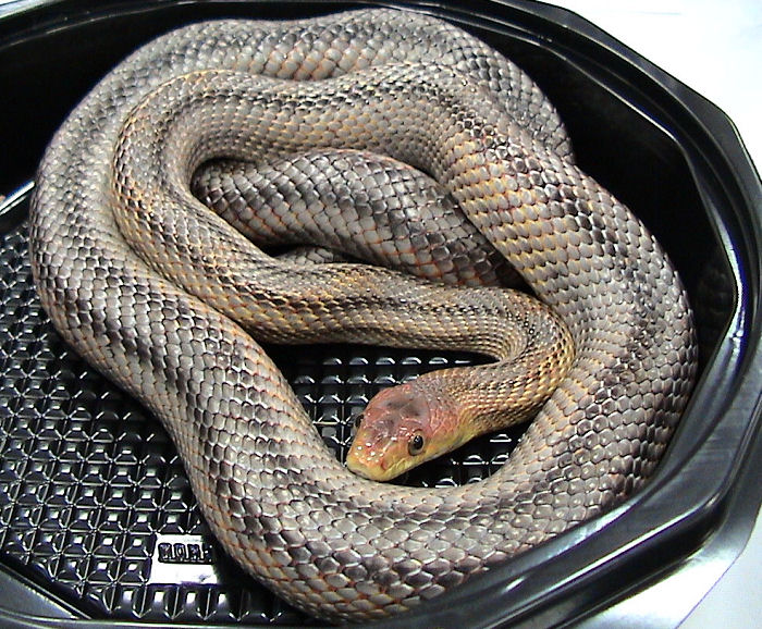 Elaphe bairdi, Baird's rat snake